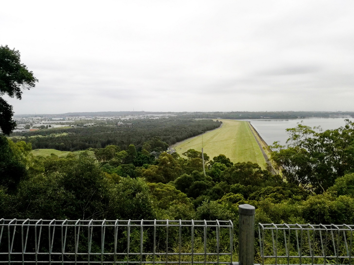 Prospect Nature Reserve.